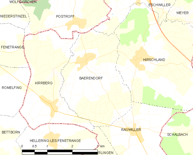 Map of French municipality